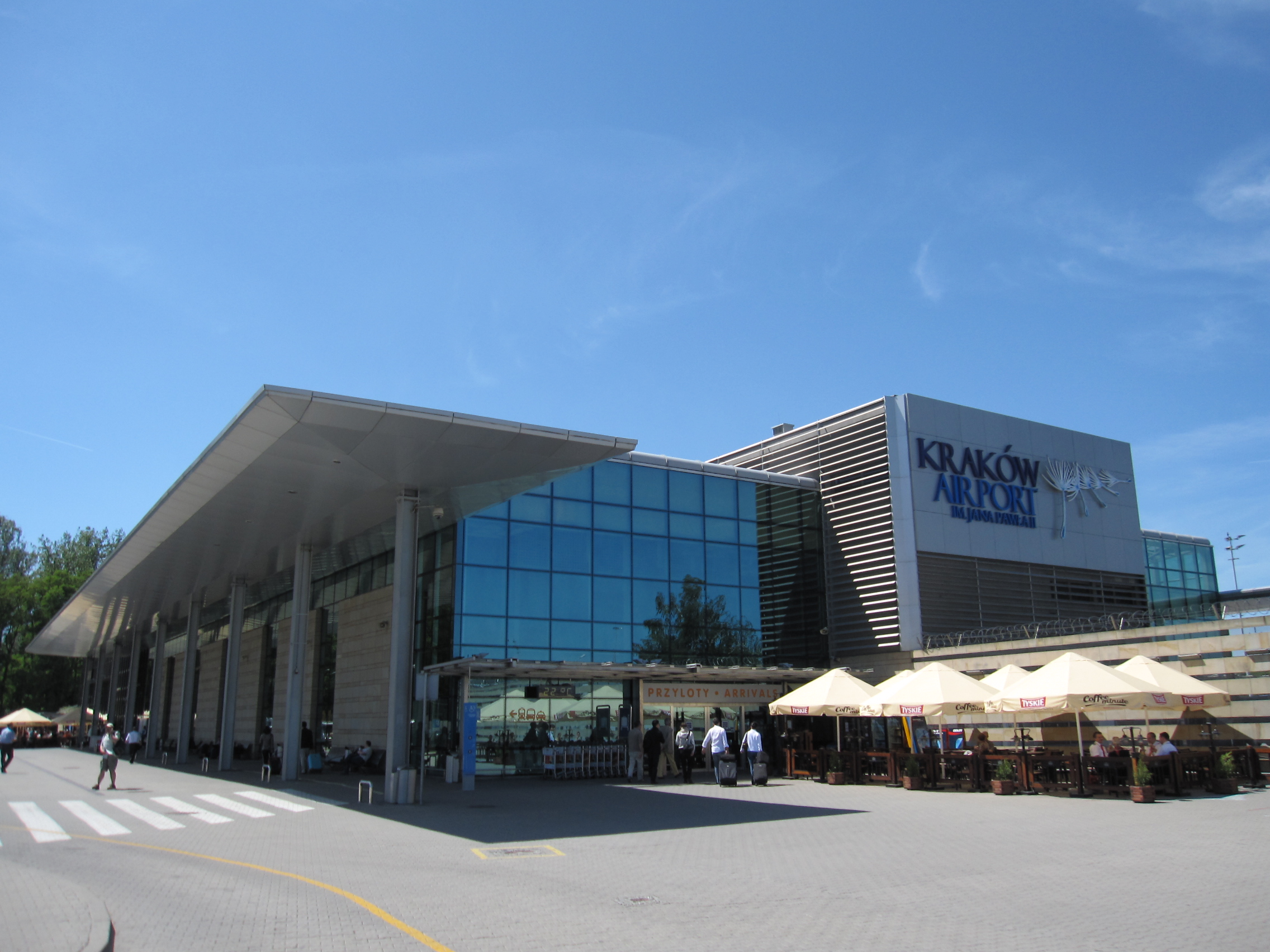 John Paul II Airport in Balice-Kraków